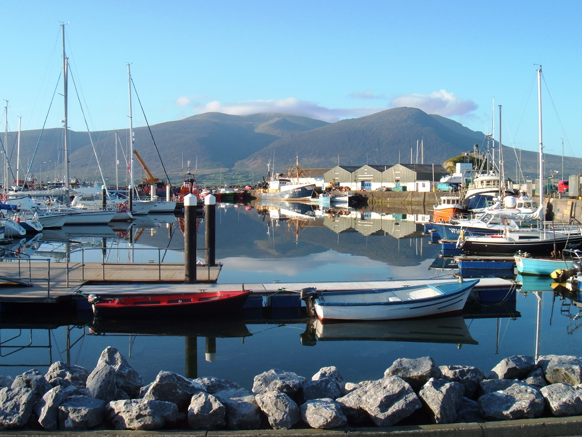 Fenit Harbour Marina, Tralee Bay, County Kerry. Ireland. Slieve Mish mountains in background. 136 berth marina, state owned.